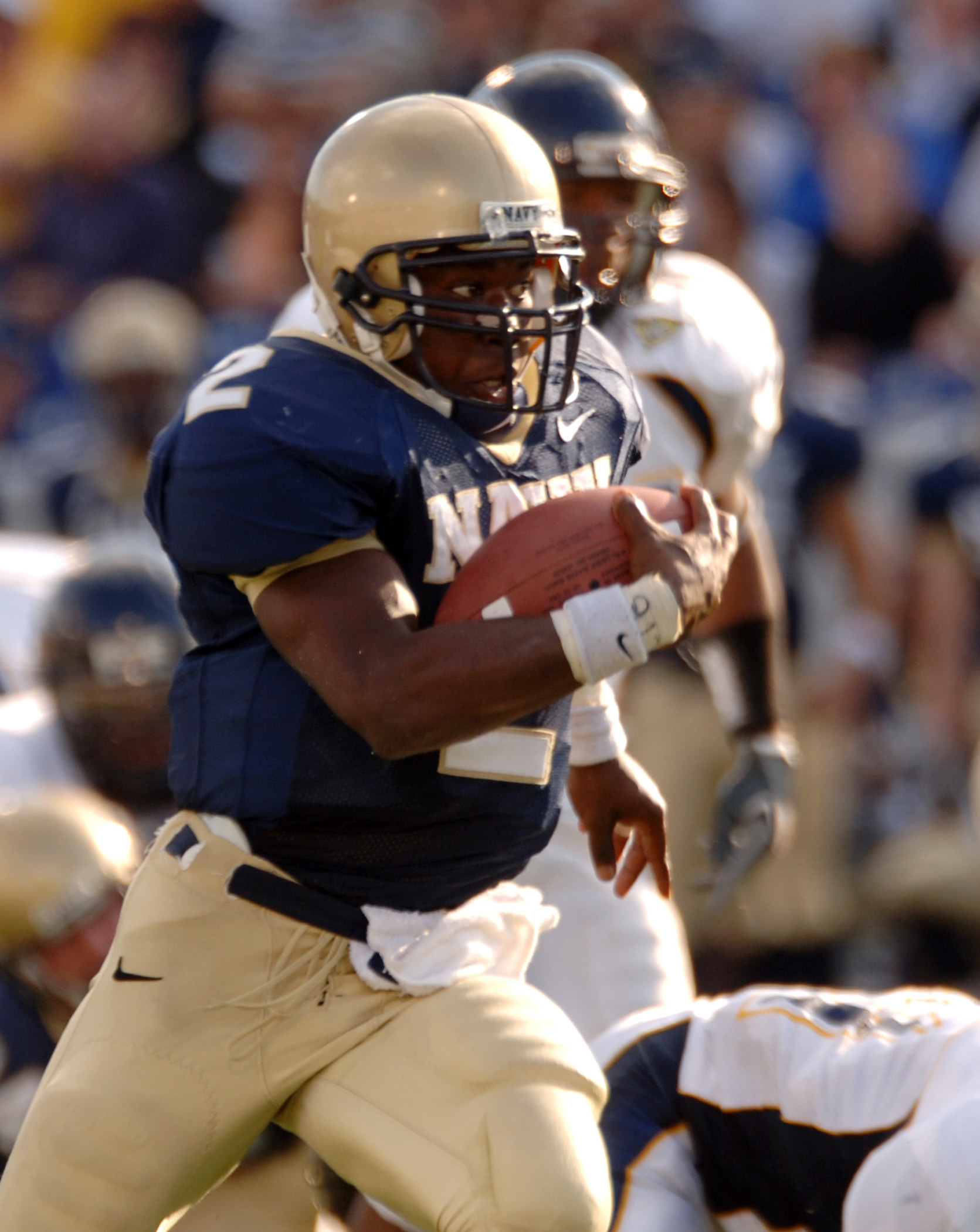 Annapolis, Md. (Oct. 15, 2005) - U.S. Naval Academy Midshipman Quarterback Lamar Owens rushes for yardage in the 4th quarter against the Kent State Golden Flashes. Owens had one touchdown, 110 yards rushing and 169 yards passing during the game. Navy (3-2) triumphed 34-31 over Kent State (1-5) at Navy-Marine Corps Memorial Stadium. U.S. Navy photo by Damon J. Moritz (RELEASED)